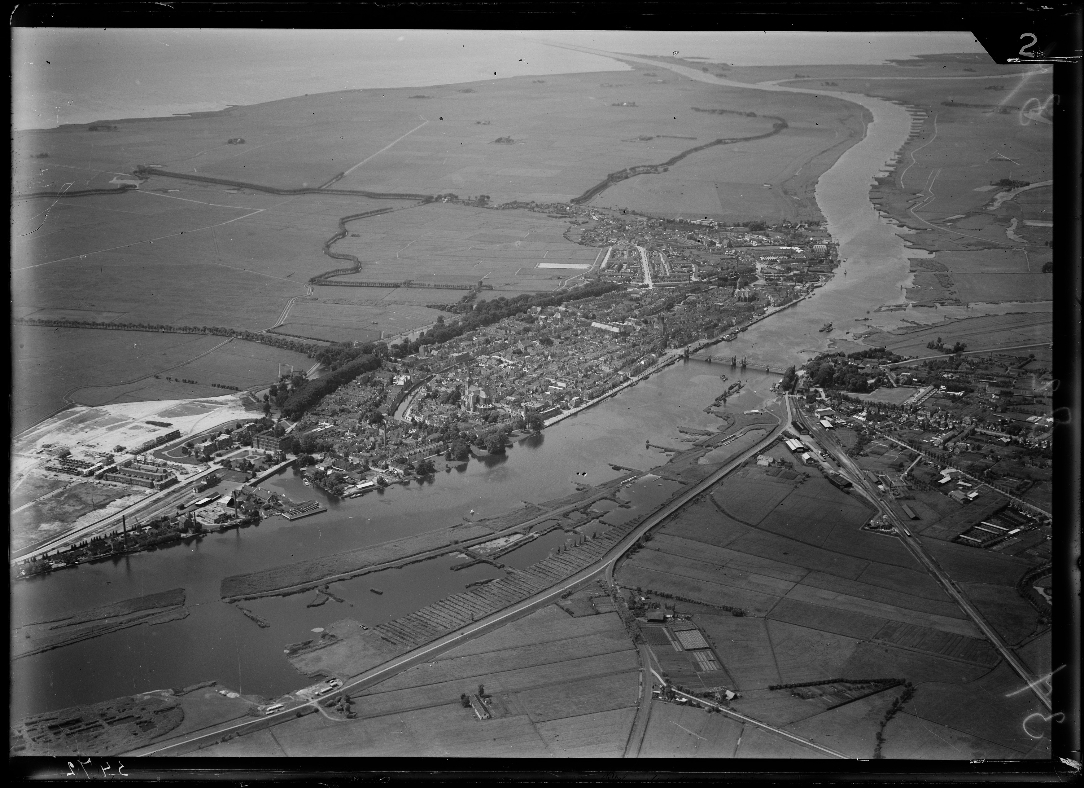 Aerial photograph of Kampen, The Netherlands